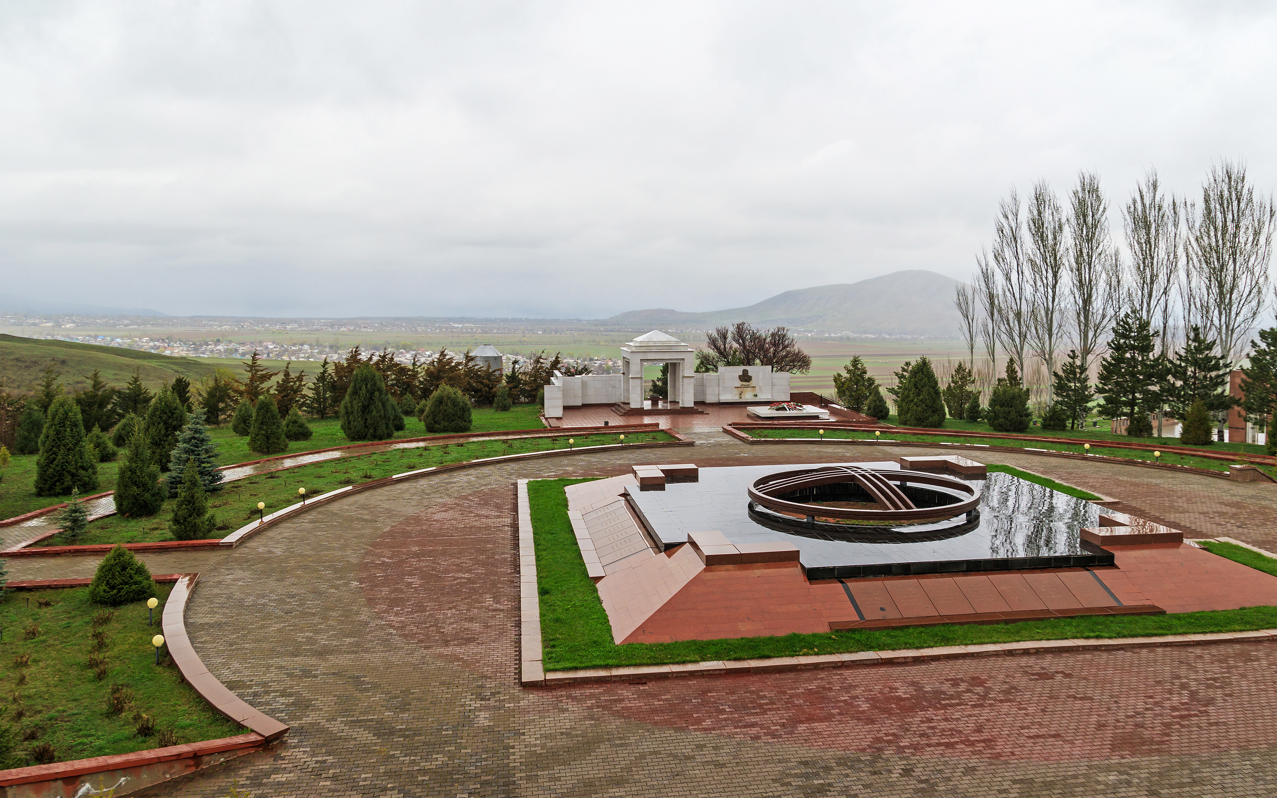 Ata-Beyit Memorial near Bishkek. Chuy Region, Kyrgyzstan